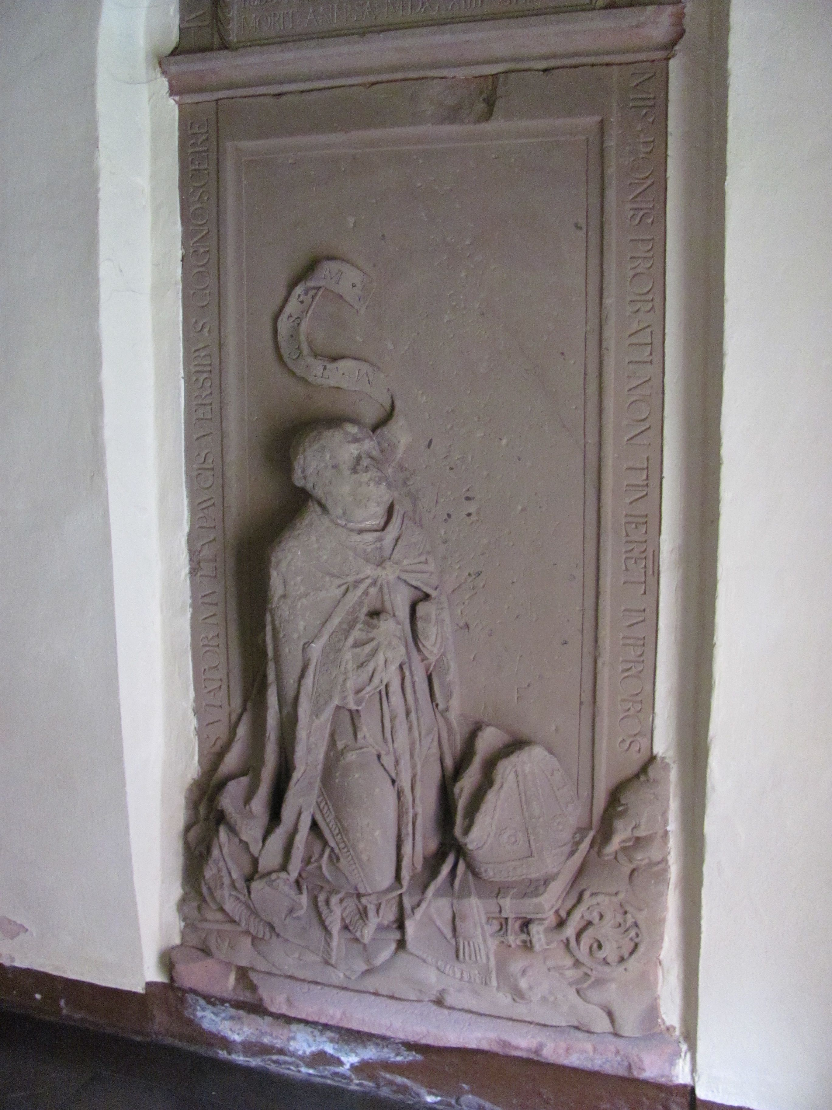 Schlüchtern Monastery, Grabmal Christian Happ